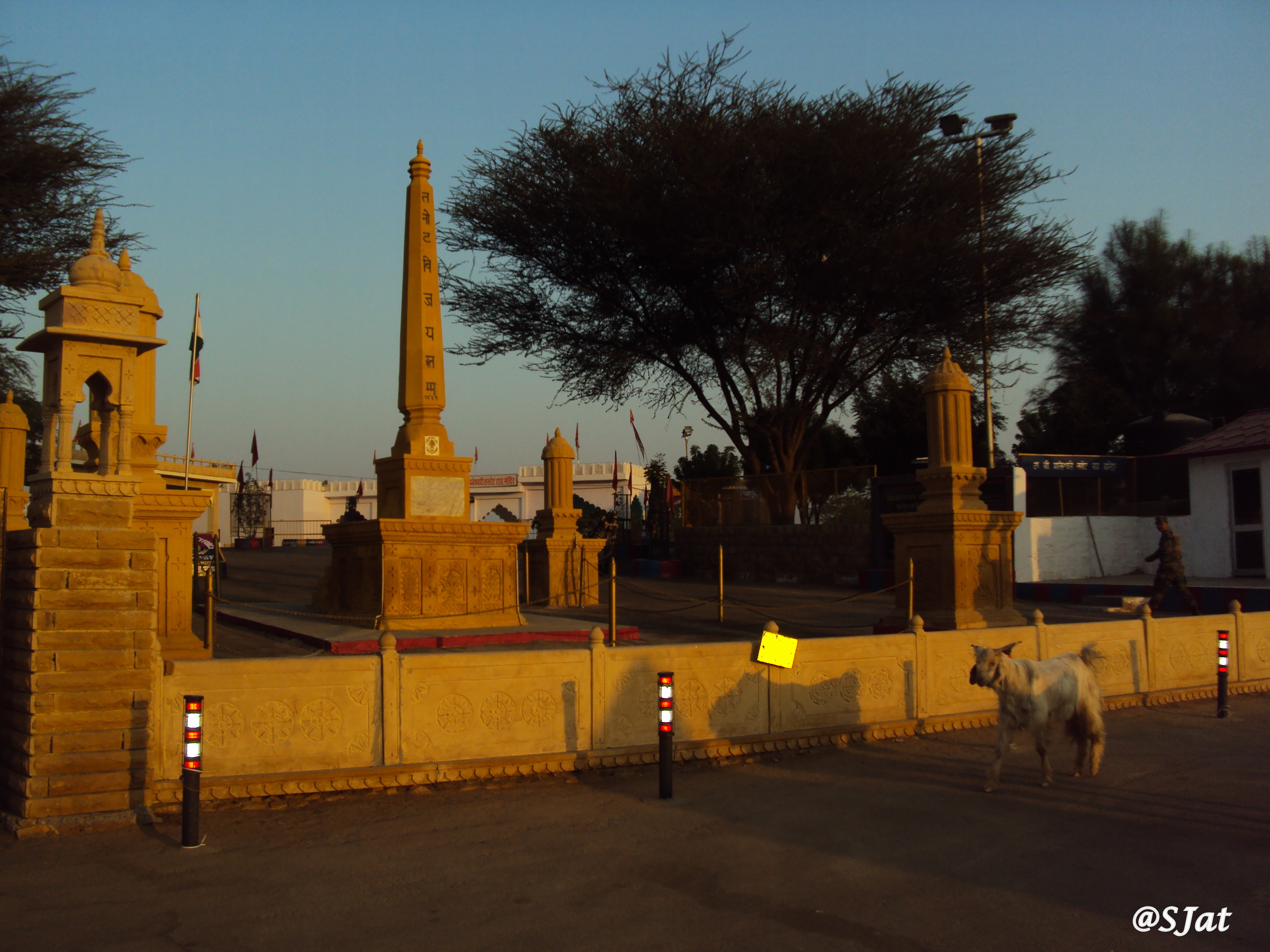 Mateshwari Tanot Rai Mandir